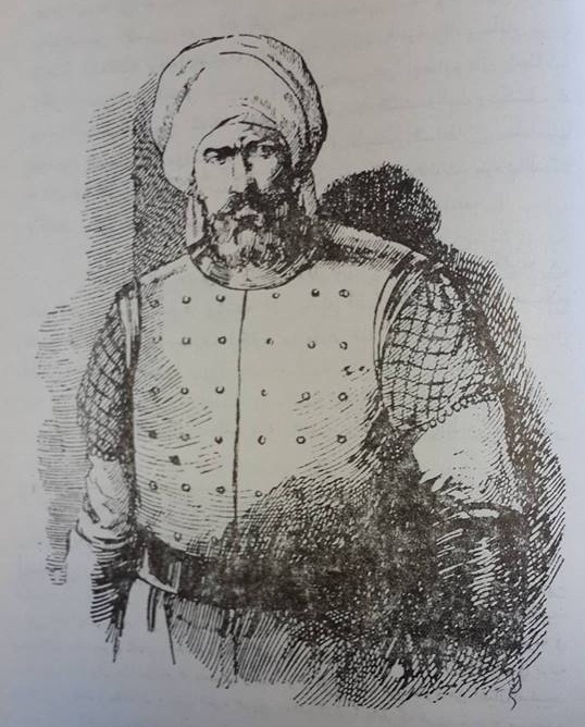 A drawing of Saladin in his 40's.